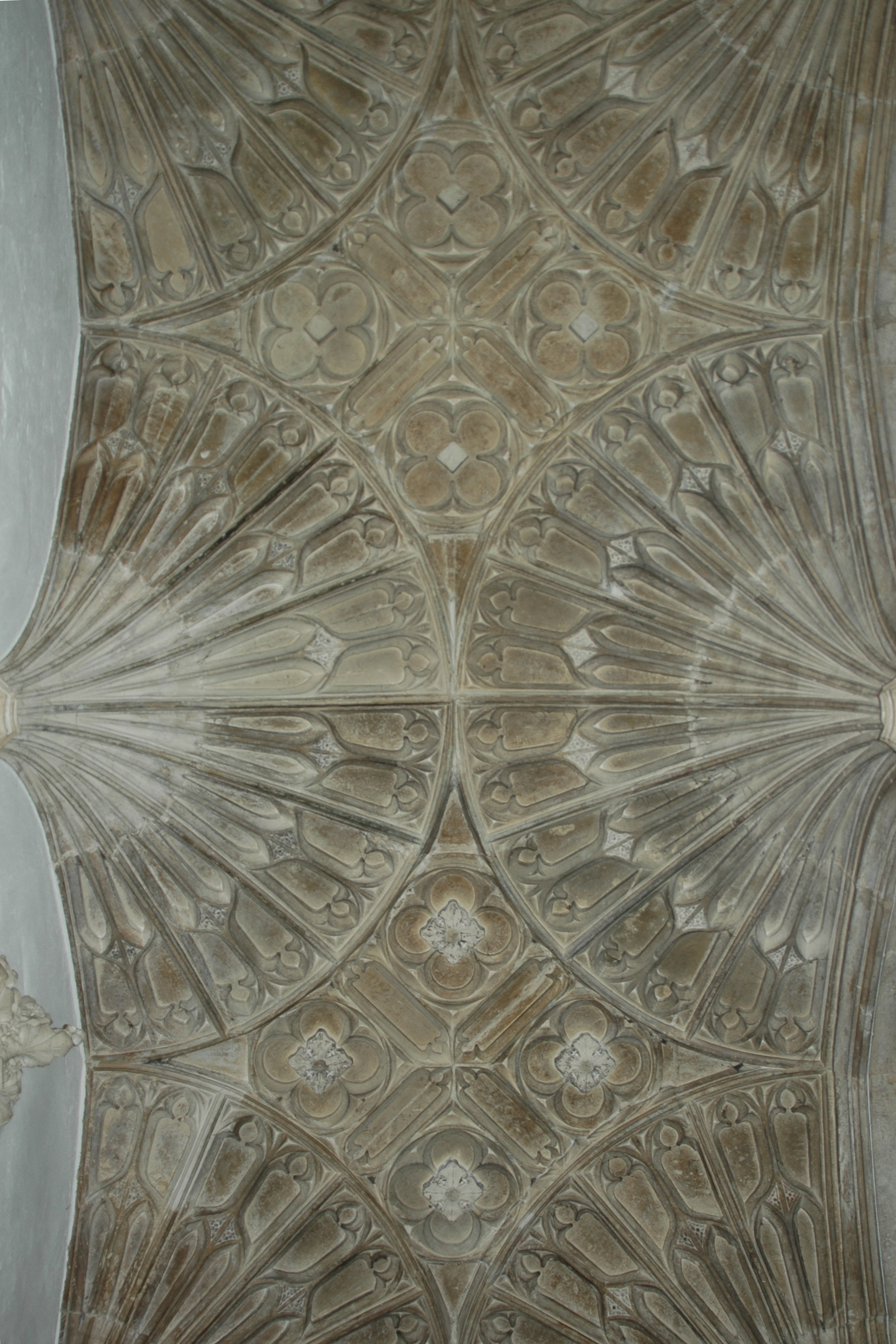 Fan-vaulted ceiling of Wilcote chantry chapel in St Mary's parish church, North Leigh, West Oxfordshire, England